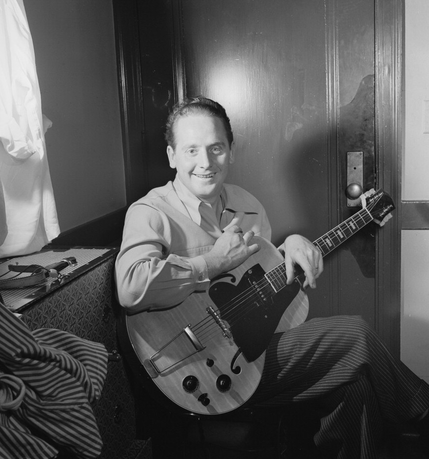 Les Paul, ca. January 1947 (Photograph by William P. Gottlieb) Les Paul Electric Guitar "Clunker" (1942) based on 1942 Epiphone Broadway